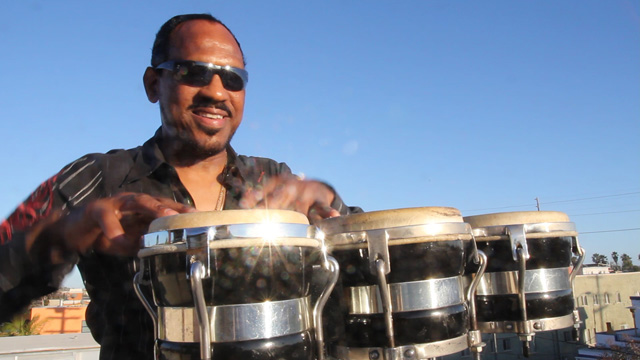 Oliver C. Brown from the award-winning documentary film, "Gravity 180" by Len Rosen.